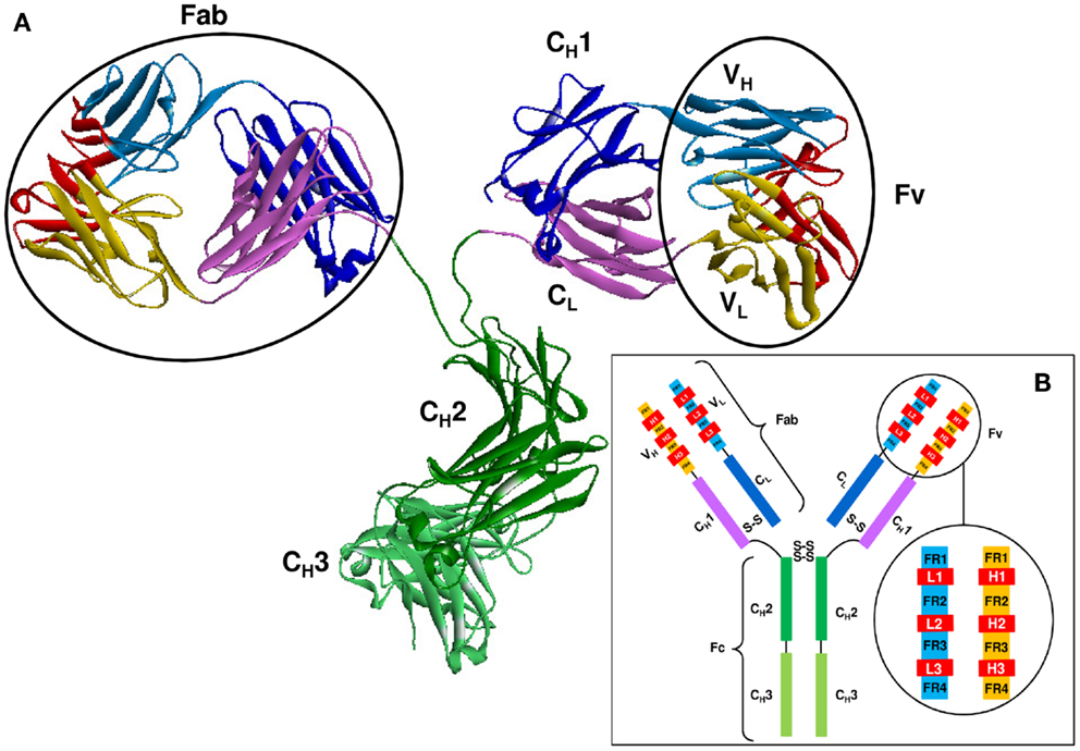 Molecular model of antibody. (A) The 3-D structure of an Ab molecule (PDB ID: 1IGT). (B) A schematic representation of the Ab scaffold.